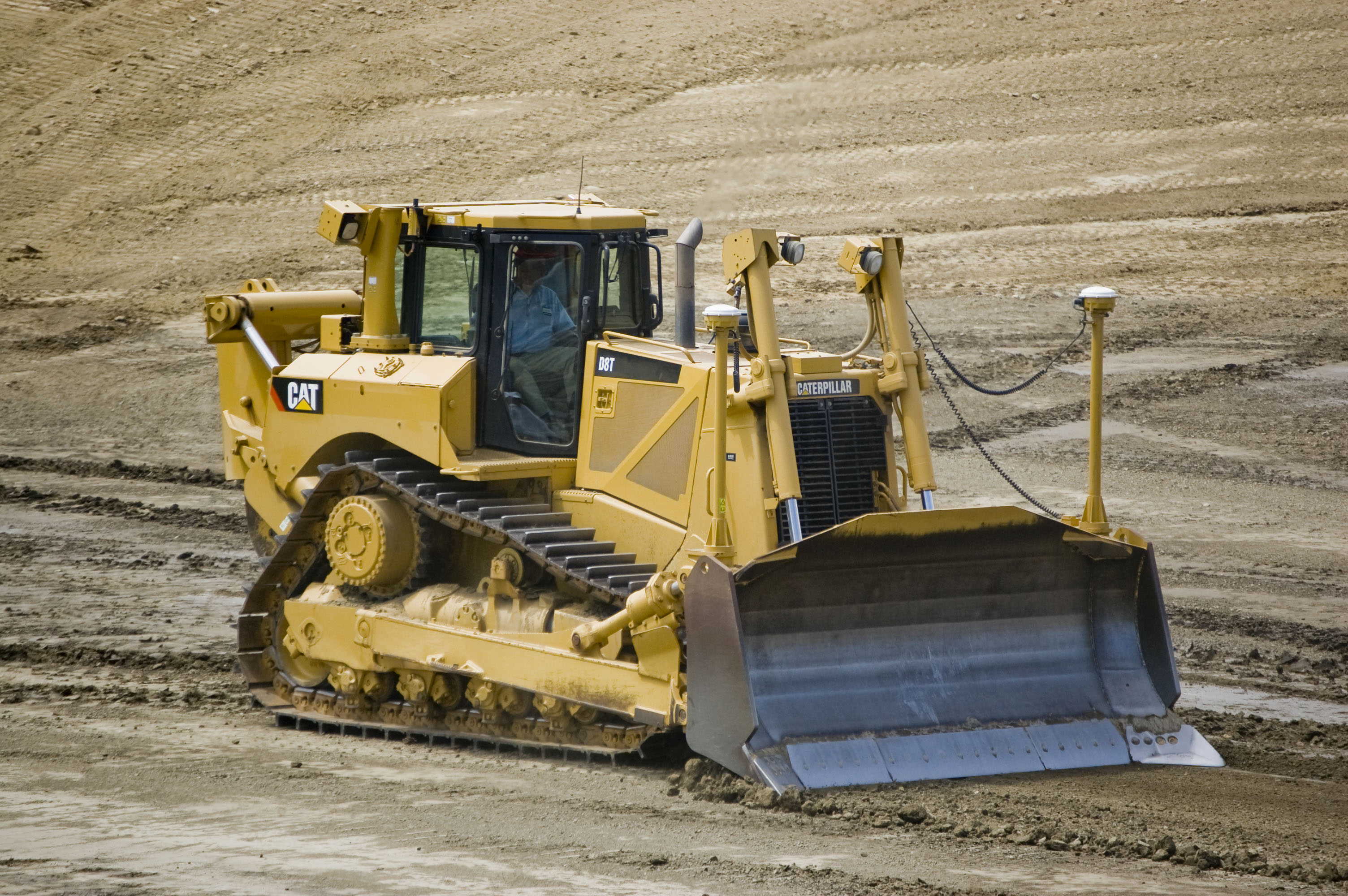 Caterpillar D8T with Trimble GPS system